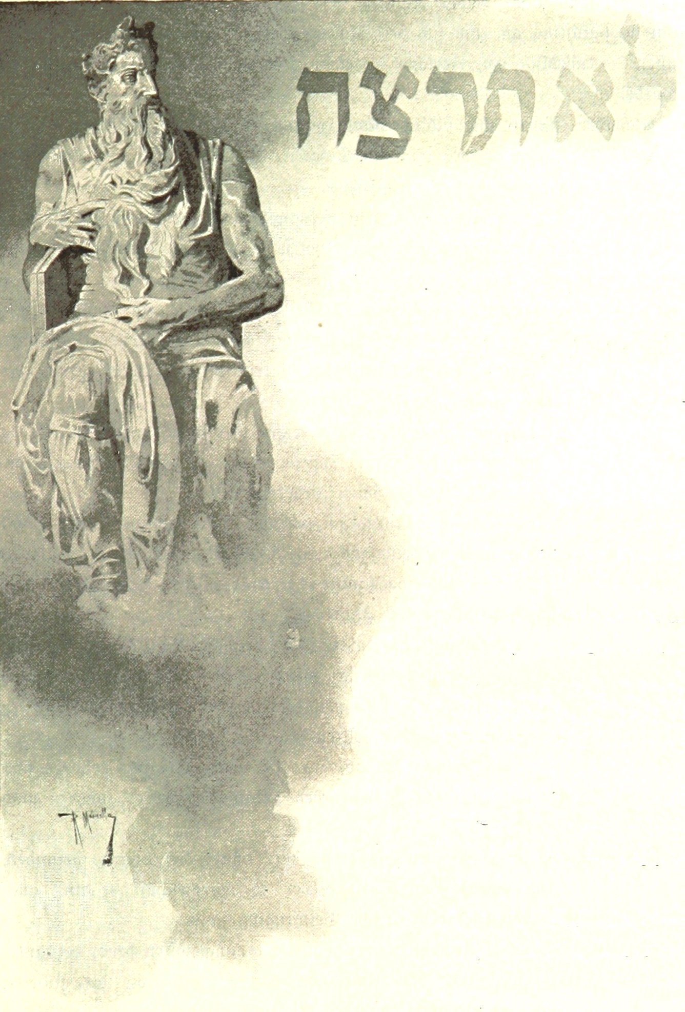 Image taken from: Title: "Pilgerritt. Bilder aus Palästina und Syrien ... Mit Illustrationen von R. Mainella" Author: GONZENBACH, C. von. Shelfmark: "British Library HMNTS 10077.l.19." Page: 55 Place of Publishing: Berlin Date of Publishing: 1895 Issuance: monographic Identifier: 001461219 Explore: Find this item in the British Library catalogue, 'Explore'. Download the PDF for this book (volume: 0) Image found on book scan 55 (NB not necessarily a page number) Download the OCR-derived text for this volume: (plain text) or (json) Click here to see all the illustrations in this book and click here to browse other illustrations published in books in the same year. Order a higher quality version from here.